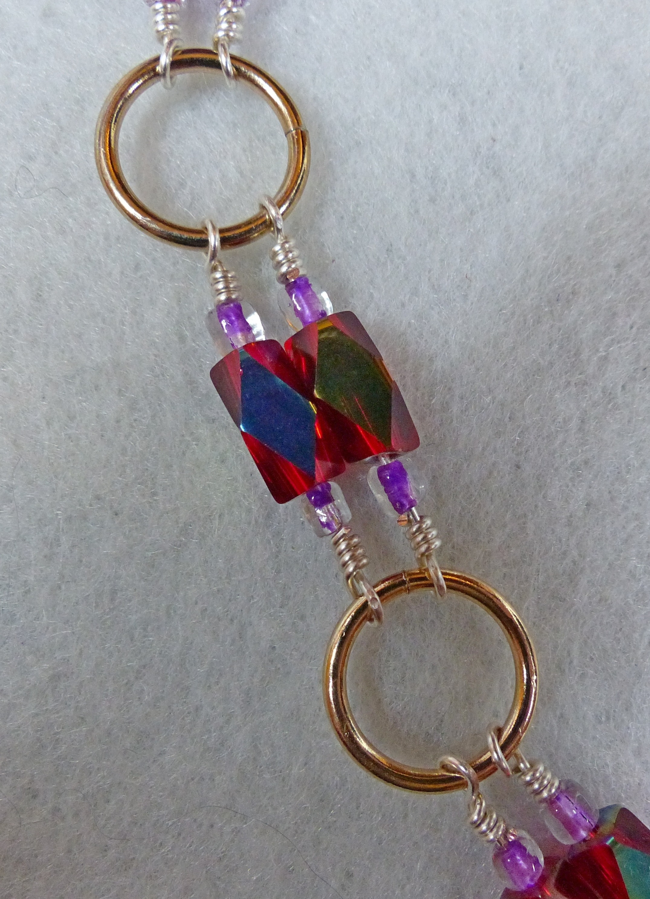 Close up on a bracelet, showing eight wrapped loops. The bracelet uses glass beads, silver-plated wire and gold jump rings. The loop referred to in the name “wrapped loop” forms the purple bead connection to the gold ring and would normally be a “plain loop” i.e. without any ornamentation between the purple beads and the ring. A “wrapped loop” creates a nice looking connection by coiling the wire around itself three times to make the appearance of a spring or coil. The bracelet is home-made.